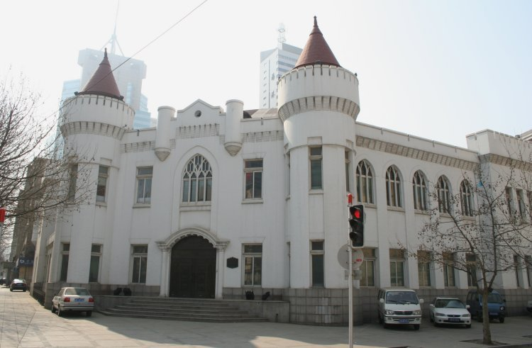 Japanese Custom in Dairen City (now Dalian, PRC). Built in 1914